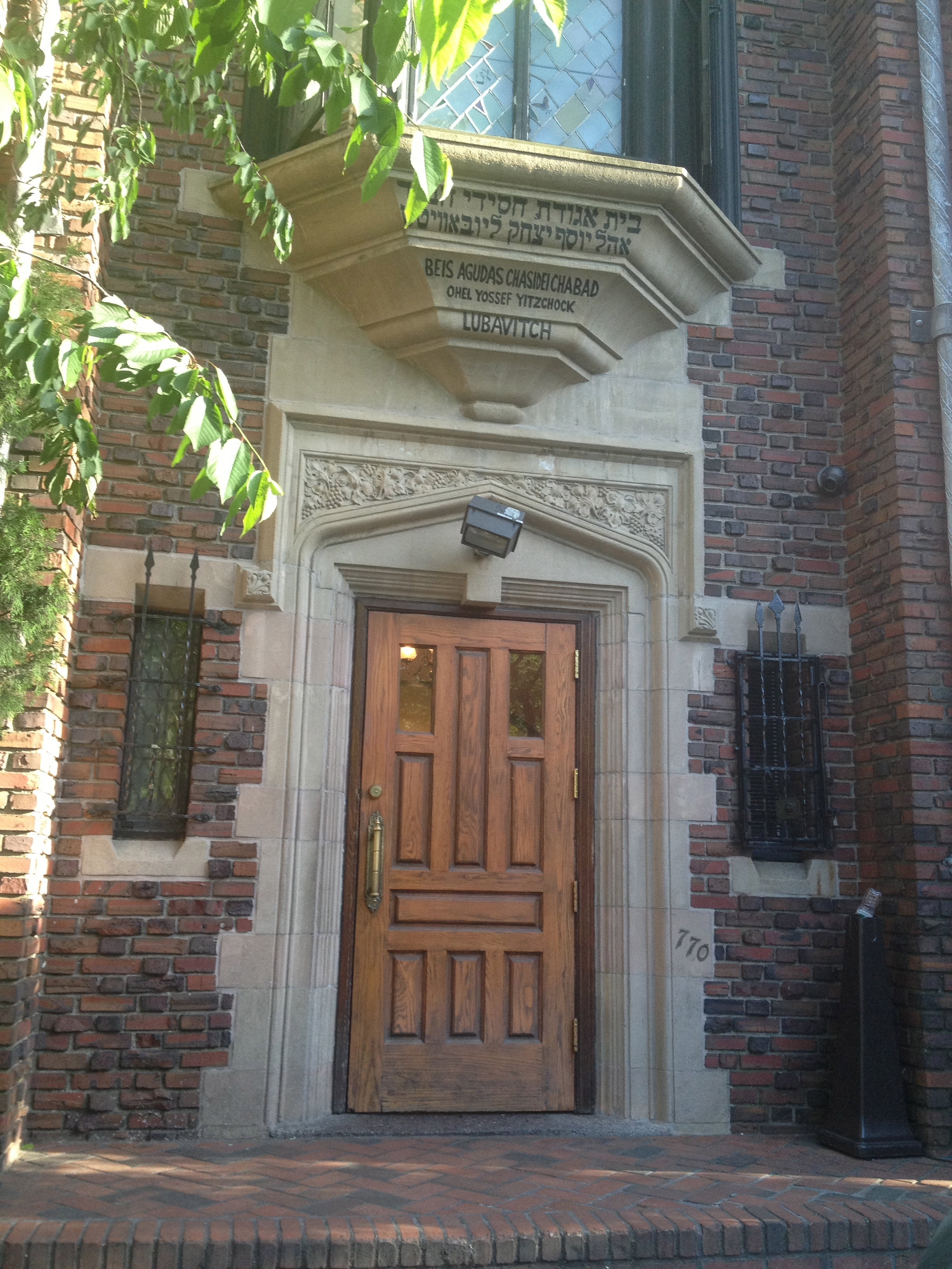 Front entrance to 770 Eastern Parkway, Brooklyn, NY, headquarters of Chabad Lubavitch